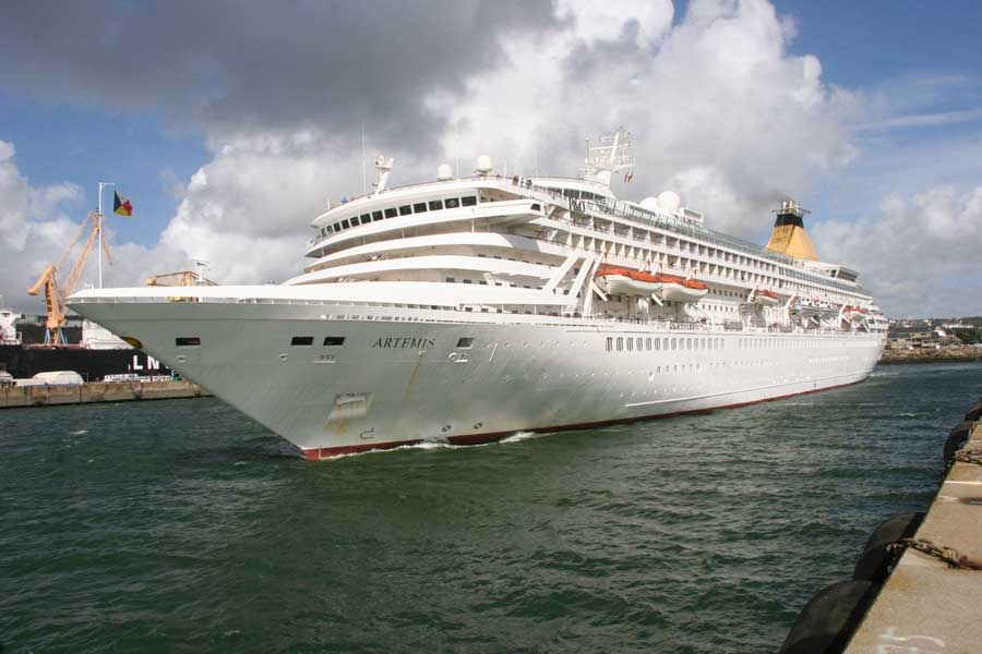 The cruise hip Artemis leaving Brest.